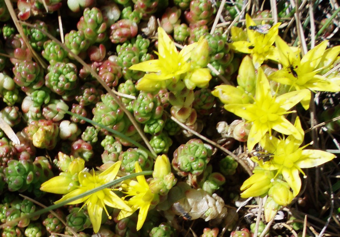 Sedum acre (de: Scharfer Mauerpfeffer) nearby Myvatn in Iceland